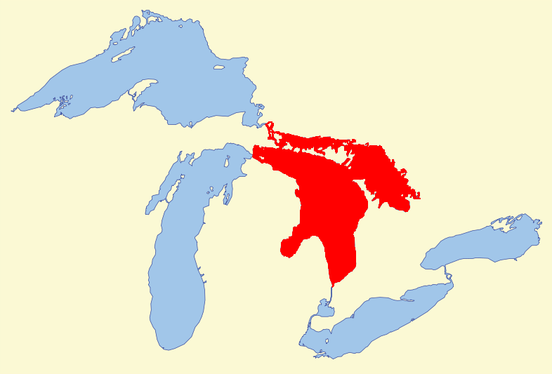 Map of Lake Huron